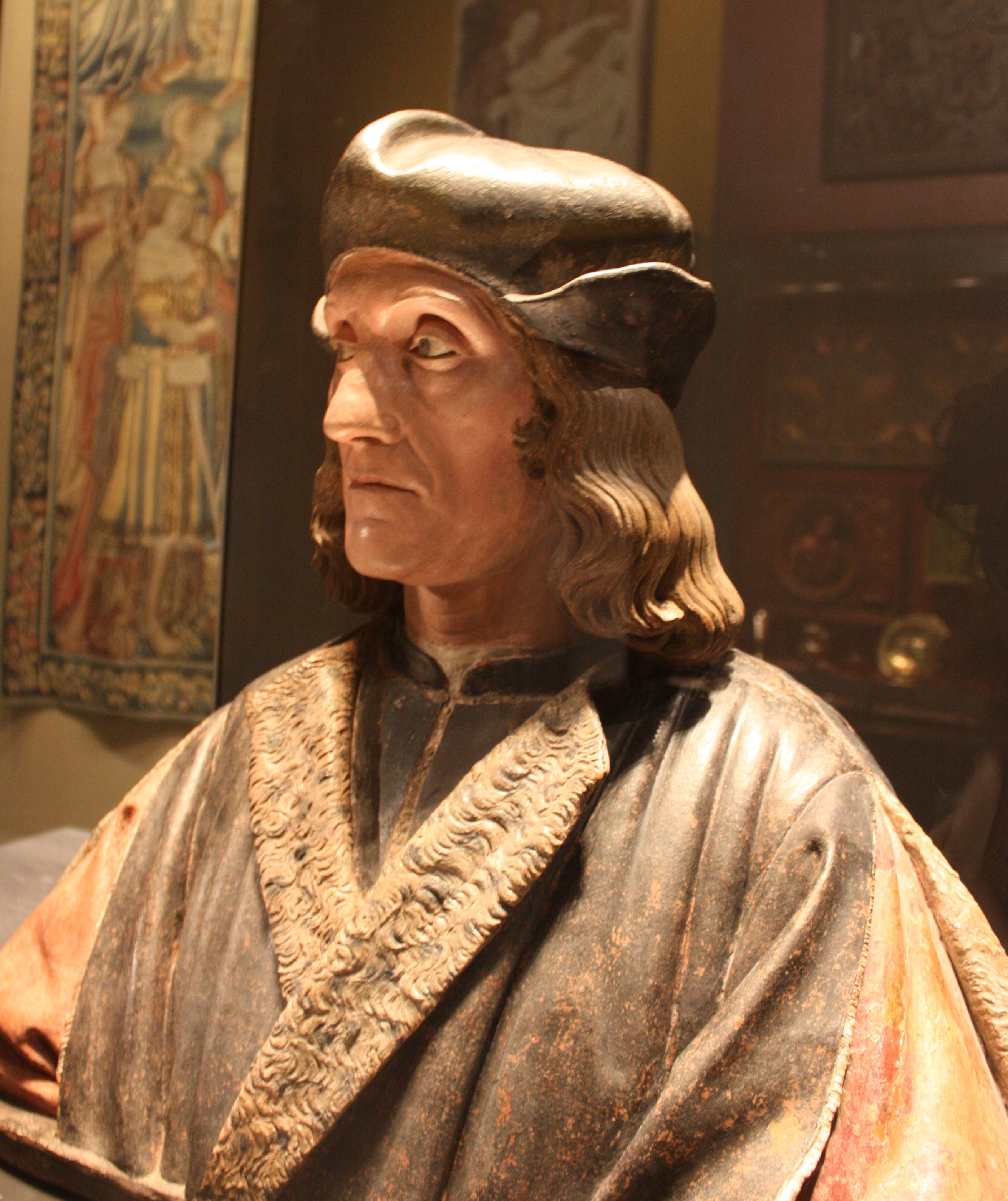 Bust of Henry VII 1509-1511 This bust was based on a plaster cast taken from the dead King's face. The cast was also used for his funeral effigy. The bust was meant to show the King as in life and may have been a test of skill for the Florentine sculptor, Pietro Torrigiani. In 1512 he was commissioned to make the tomb of Henry VII and his wife Elizabeth of York in Westminster Abbey. Torrigiani was the most important Italian artist to be employed by their son, Henry VIII. Painted terracotta Made in London by Pietro Torrigiani (born in Florence, Italy, 1472, died in Seville, Spain, 1528; active in England about 1507-1522/25). Possibly commissioned by John Fisher, Bishop of Rochester (1459-1535), together with his own portrait bust and one of Henry VIII. Museum no. A.49-1935. Wikipedia Loves Art at the Victoria and Albert Museum This photo of item # A.49-1935 at the Victoria and Albert Museum was contributed under the team name "va_va_val" as part of the Wikipedia Loves Art project in February 2009. Victoria and Albert Museum The original photograph on Flickr was taken by Val_McG—please add a comment to the original Flickr page whenever a use has been made on Wikipedia or another project. Project galleries on Flickr: this institution, this team